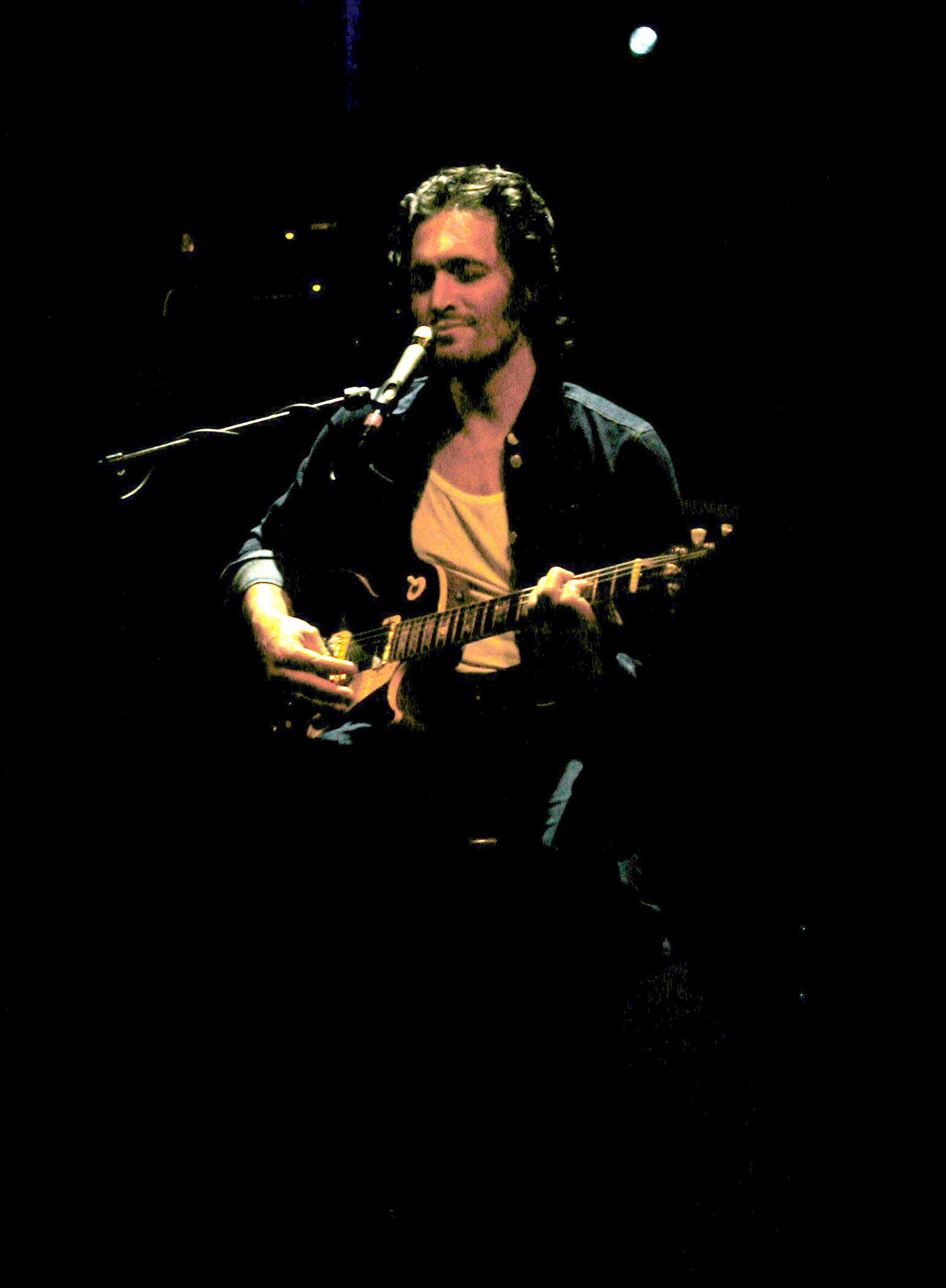 Actor and musician Vincent Gallo